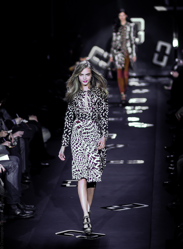 Diane von Furstenberg Fall Winter 2013